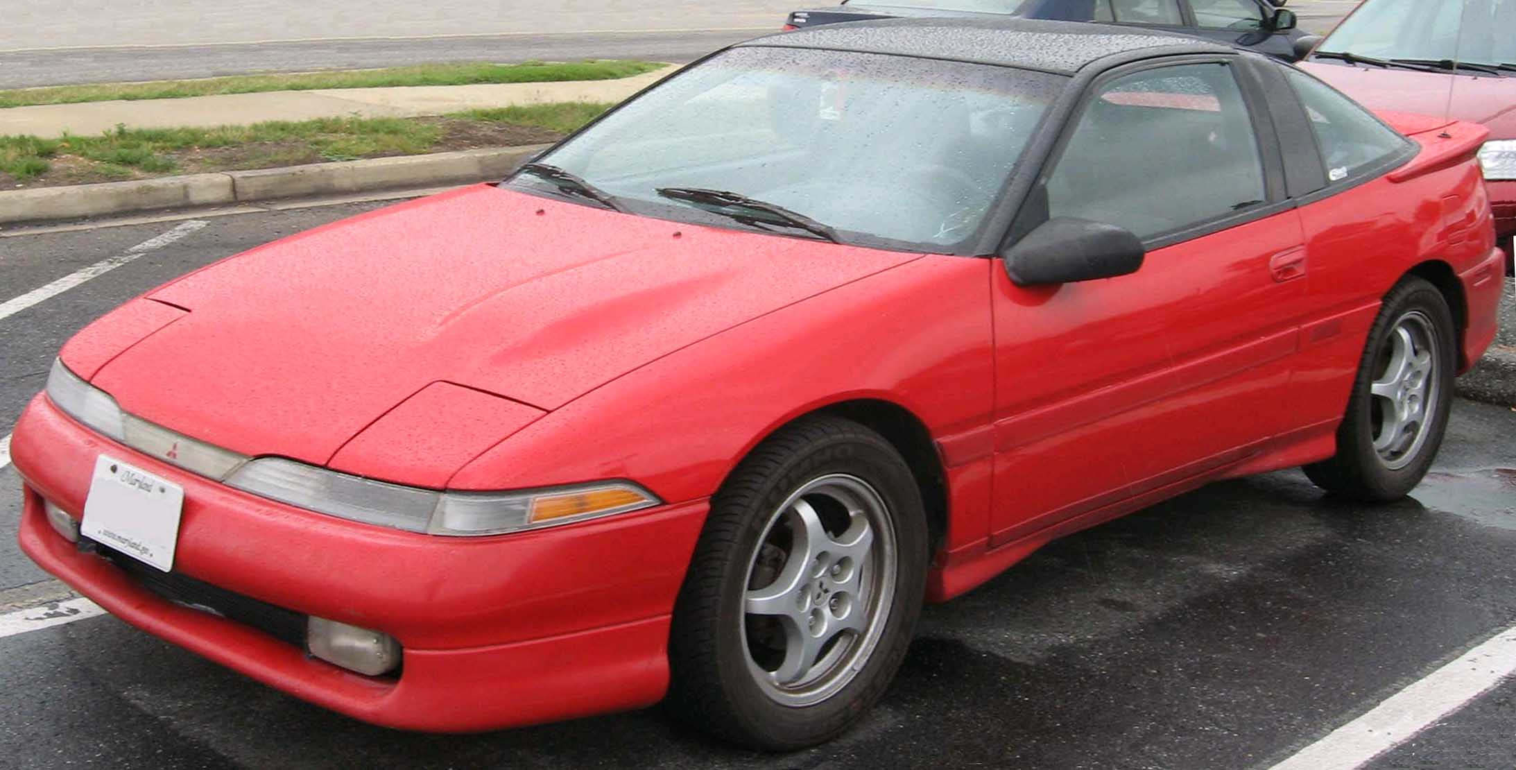 1991 Mitsubishi Eclipse turbo FWD photographed in College Park, Maryland, USA.